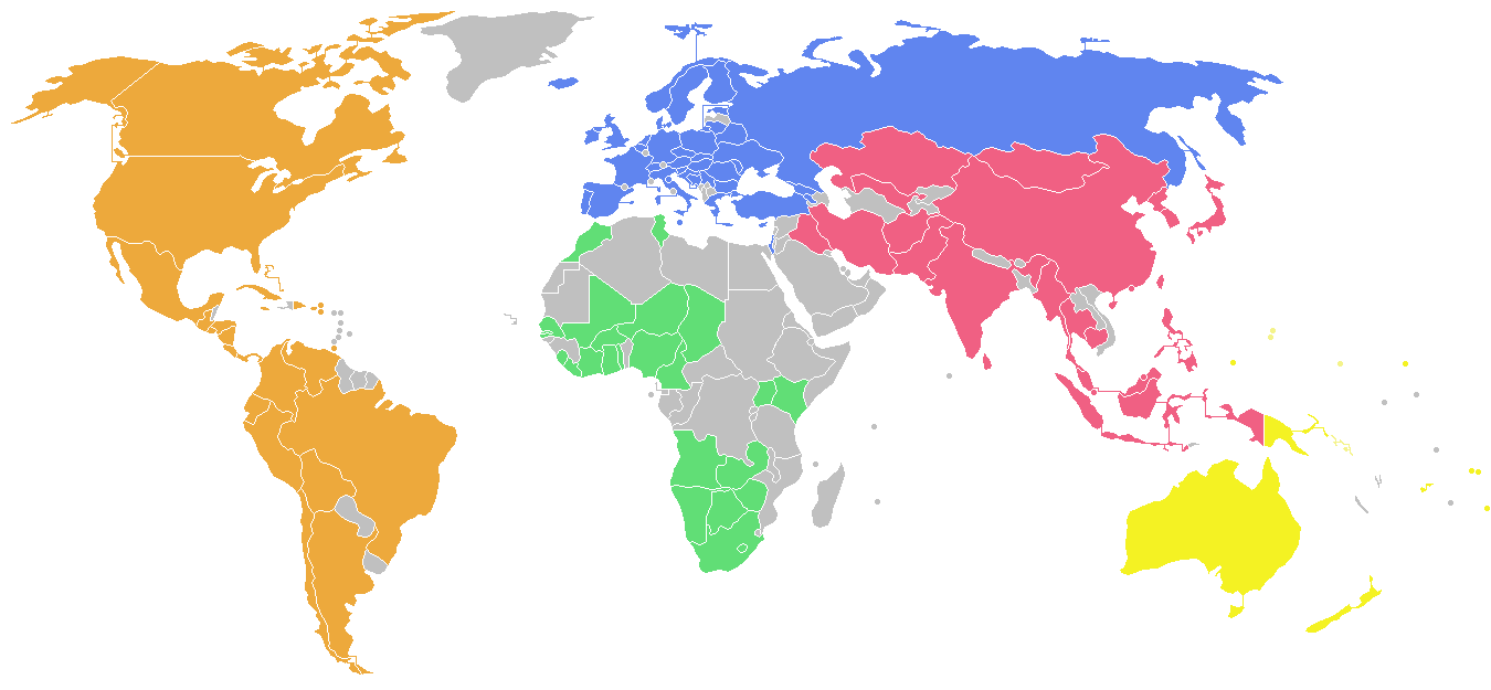 Map of the members of the IBAF according to their confederation: ABSA - African Baseball & Softball Association in Africa COPABE - Confederación Panamericana de Béisbol in the Americas BFA - Baseball Federation of Asia in Asia CEB - Confédération Européenne de Baseball in Europe BCO - Baseball Confederation of Oceania in Oceania